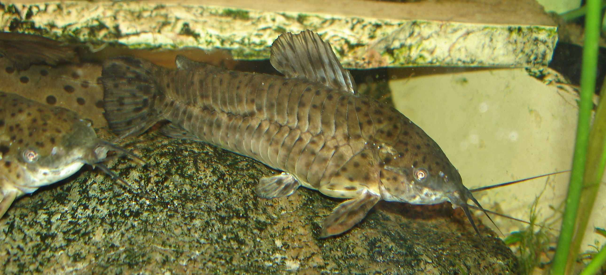 probably Megalechis thoracata